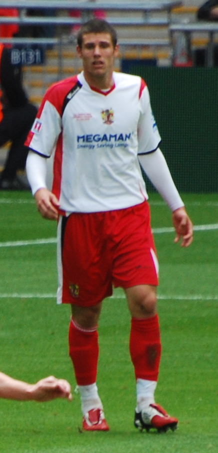 Michael Bostwick. Image cropped from original at flickr.